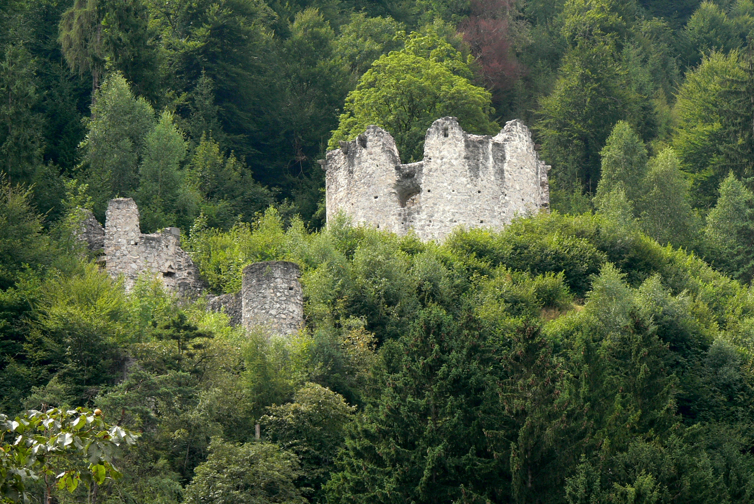 Rattenberg (Tyrol). Ruins of the castle ( 11th-16th century ).